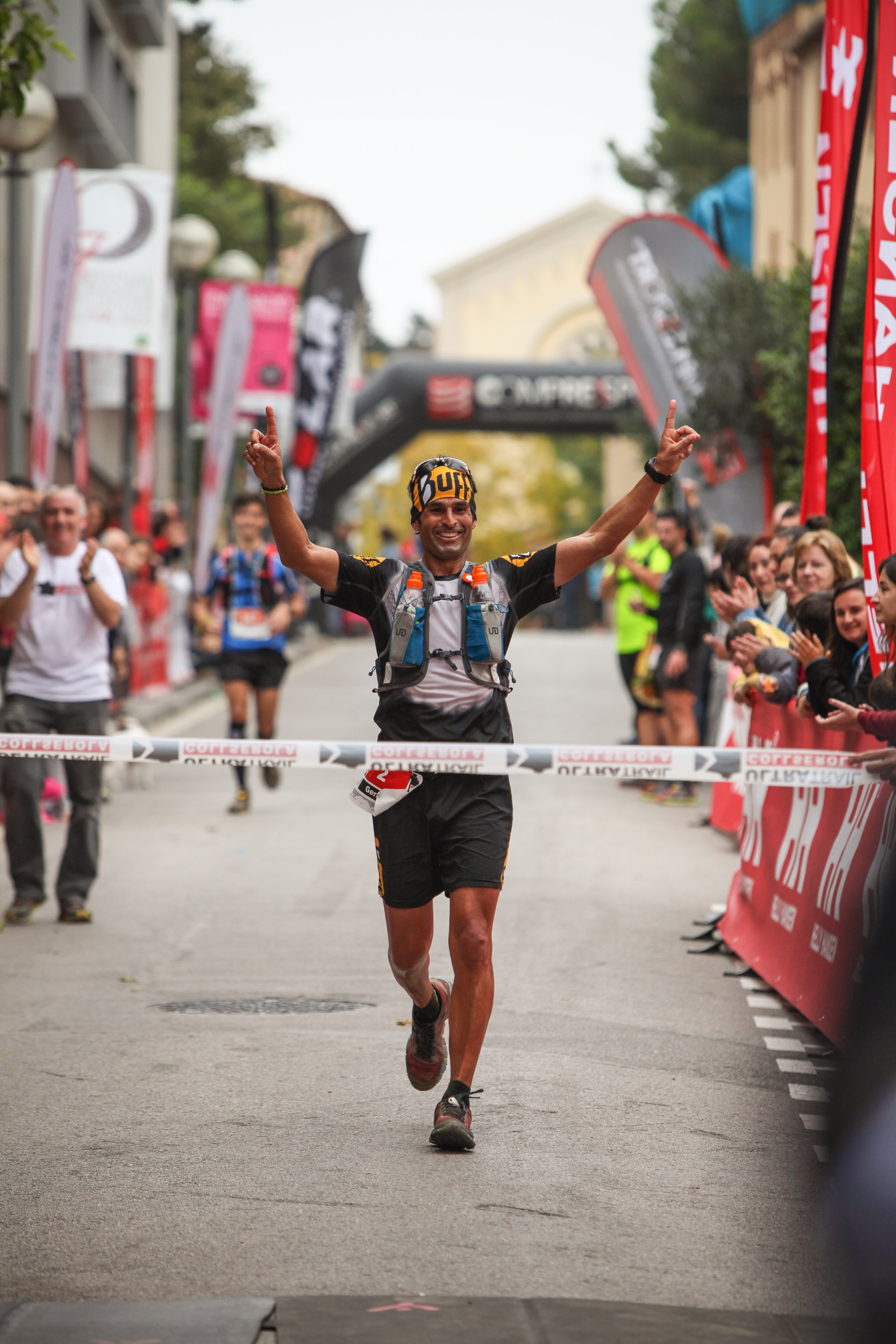 Gerard Morales at the finish line of Ultratrail Collserola 2014.